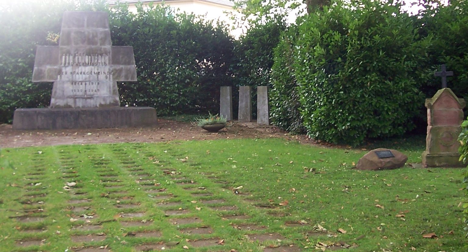 war memorials in Düren-Niederau, in remembrance of the dead soldiers of the World Wars (the big memorial on the left side) as well as those of the wars in the 19th century (the small memorial on the right side)